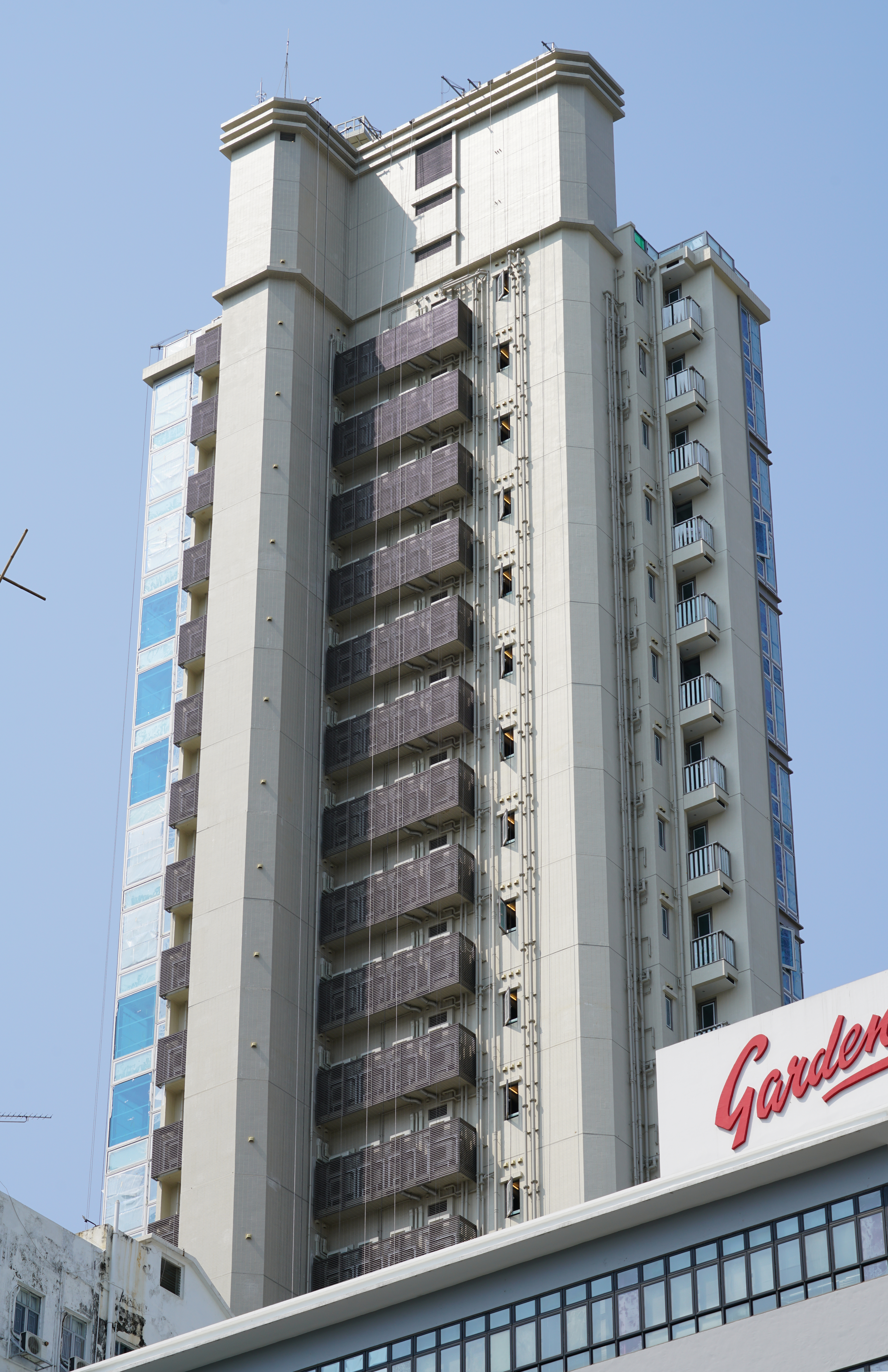 Madison Park, Hong Kong.